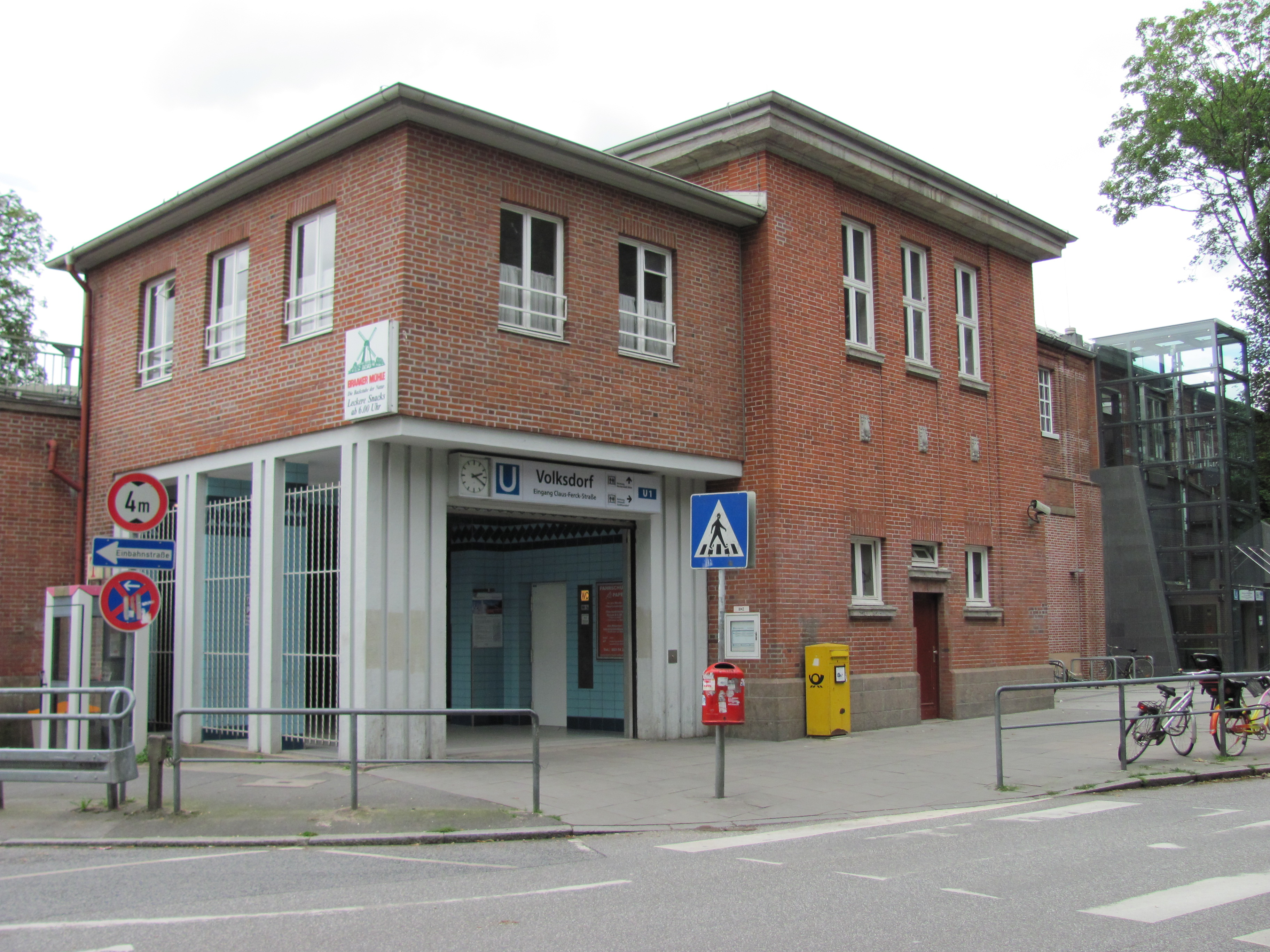 U-Bahn station Volksdorf in Hamburg, Germany